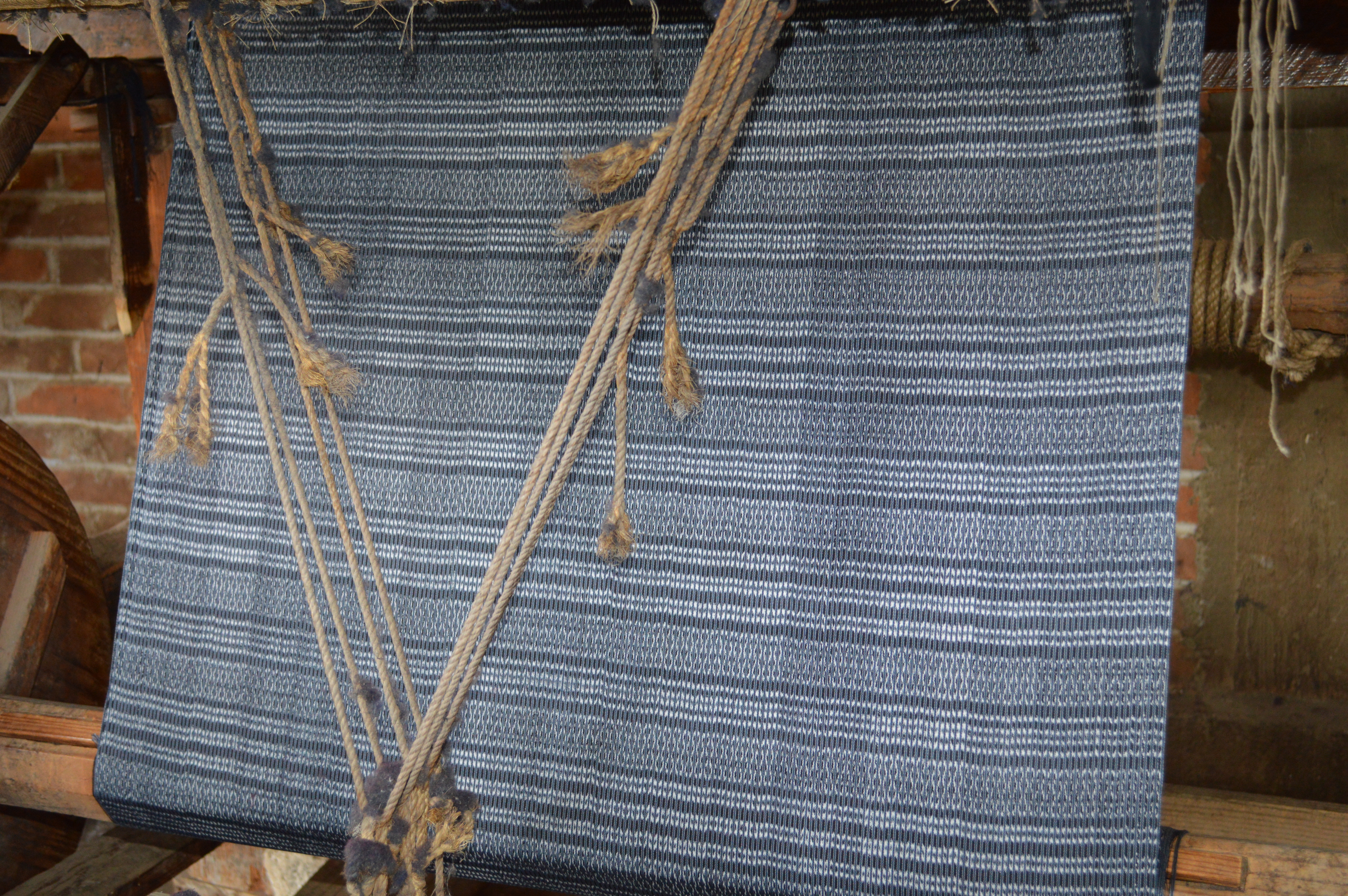 Labor doble design rebozo on a loom at the Inocencio Barboa workshop in Tenancingo, Mexico State, Mexico